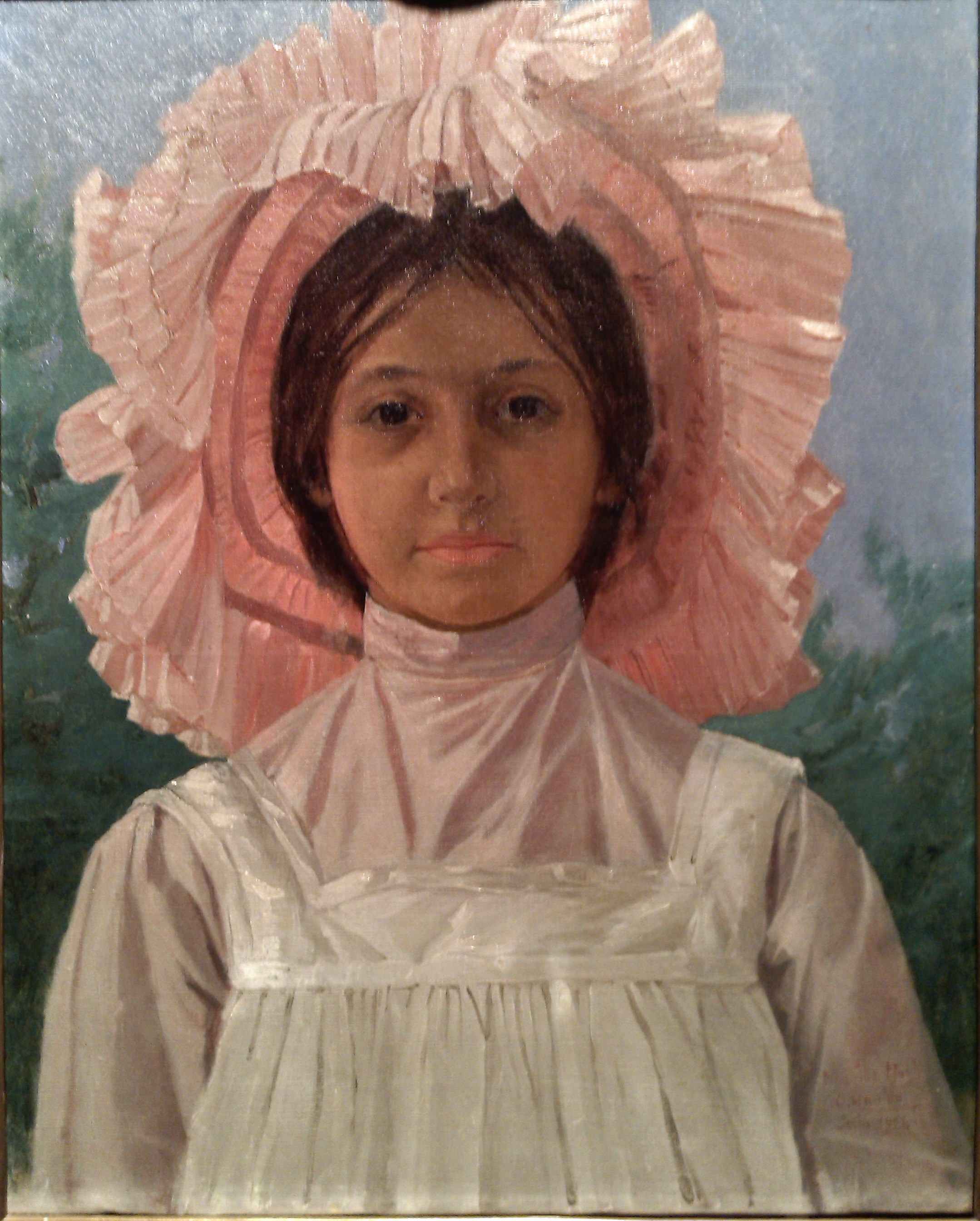 Osman Hamdi Bey. Girl with Pink Cap. June 1904. Oil on canvas. 50 x 40 cm. Pera Museum, Istanbul.